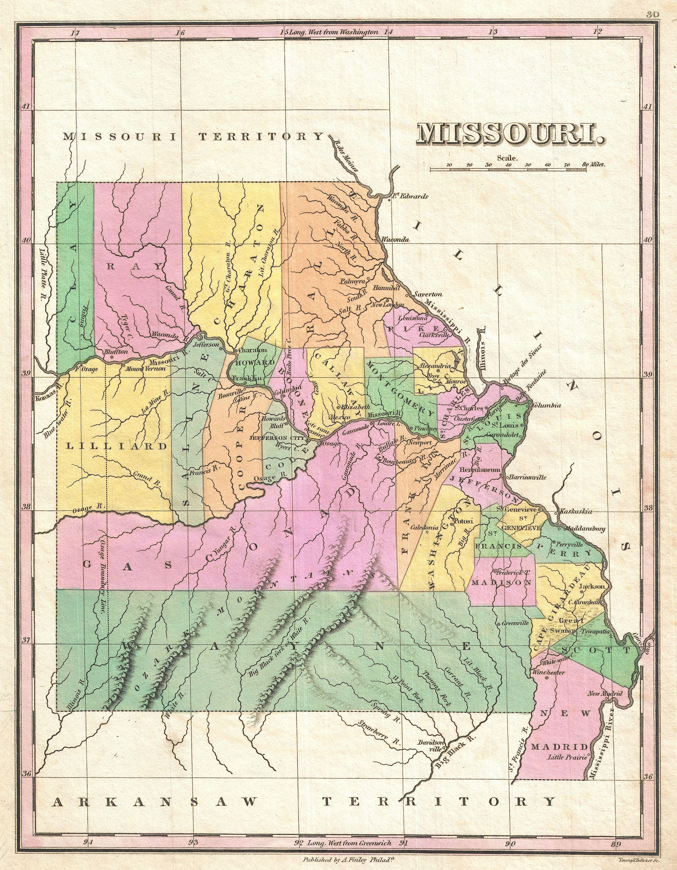 A beautiful example of Finley's important 1827 map of Missouri shortly following statehood. This is one of the earliest obtainable maps of the State of Missouri. Depicts a very early county configuration with most of the population attached to the Mississippi and Missouri rivers. The western portion of the state is defined by large counties and is largely uninhabited. Engraved by Young and Delleker for the 1827 edition of Anthony Finley's General Atlas .